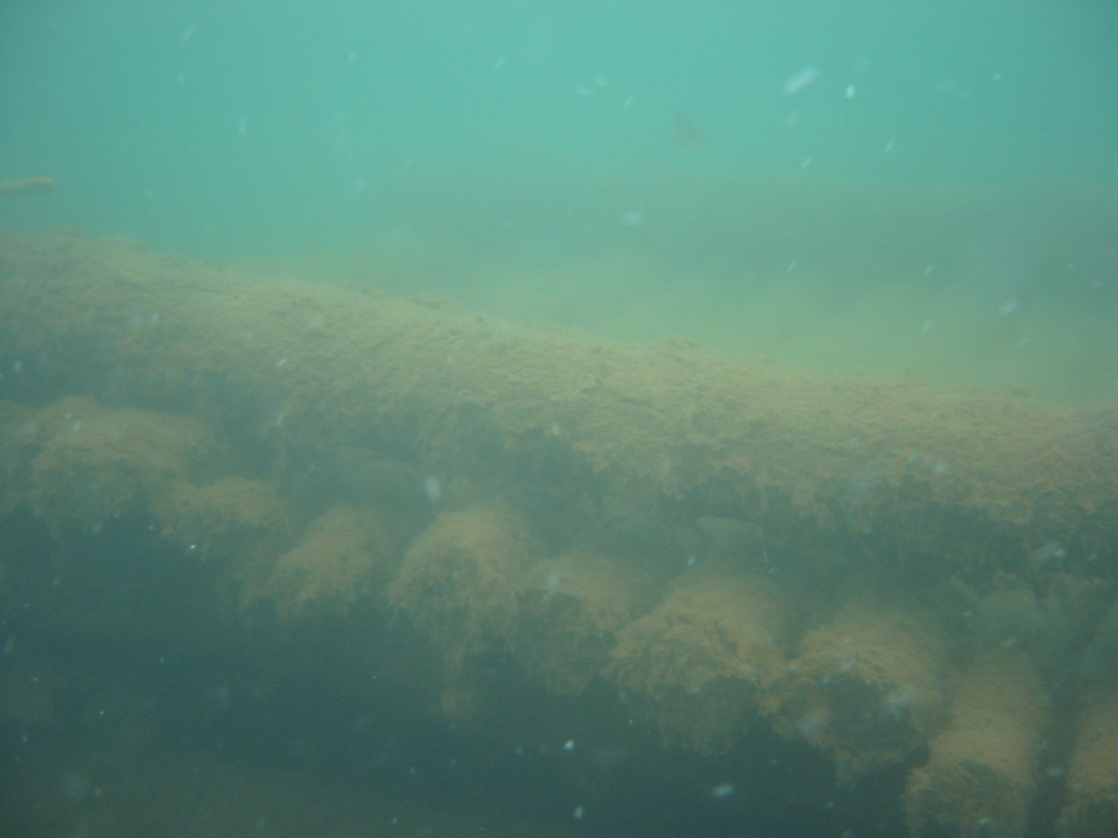 A fish crib (a protected structure where small fish can swim in and out) in Wazee Lake near Black River Falls, Wisconsin.